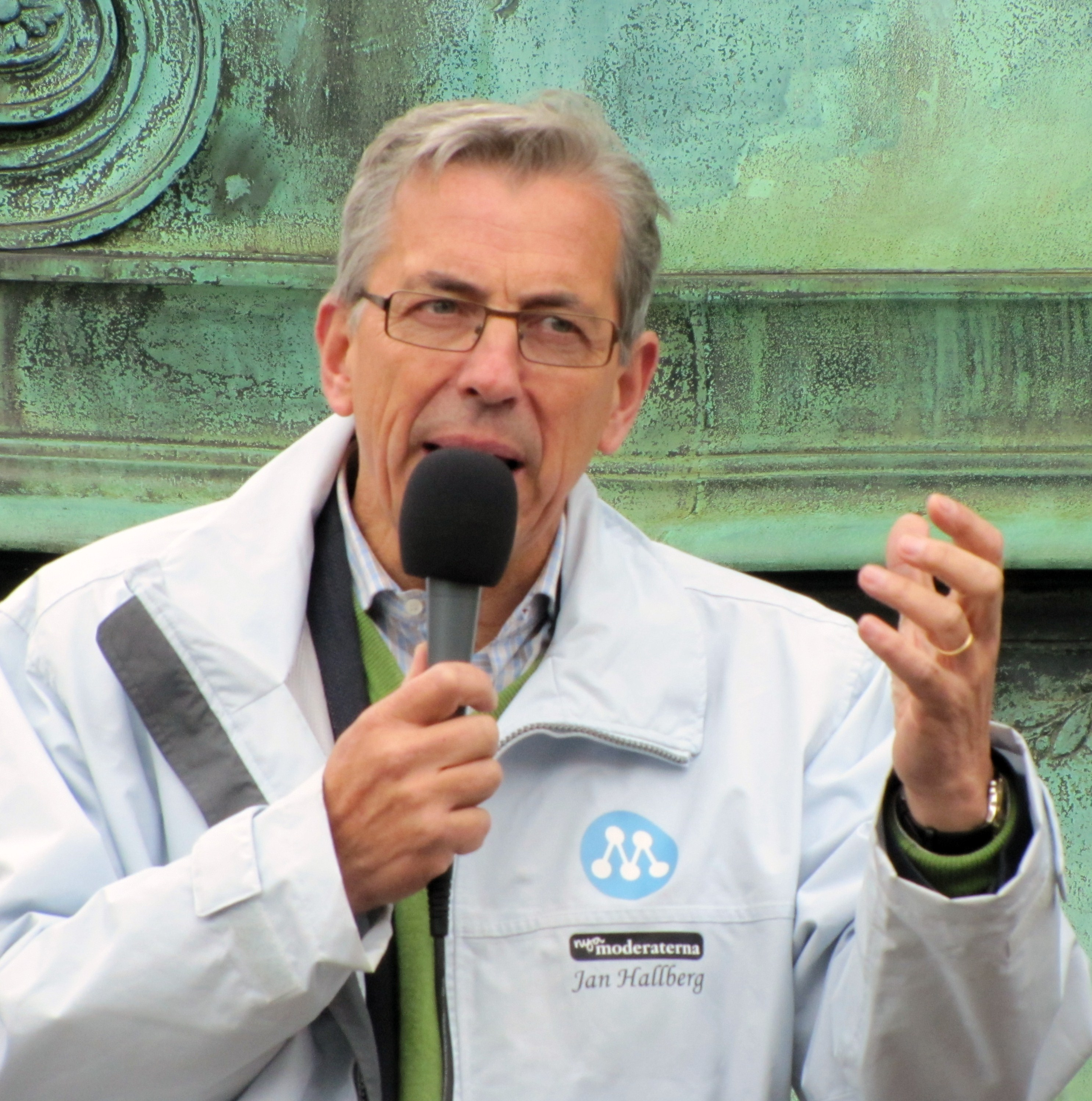 Jan Hallberg, swedish Moderate Party municipal politician, Gothenburg municipal executive committee member. He went into retirement after the election in 2010.